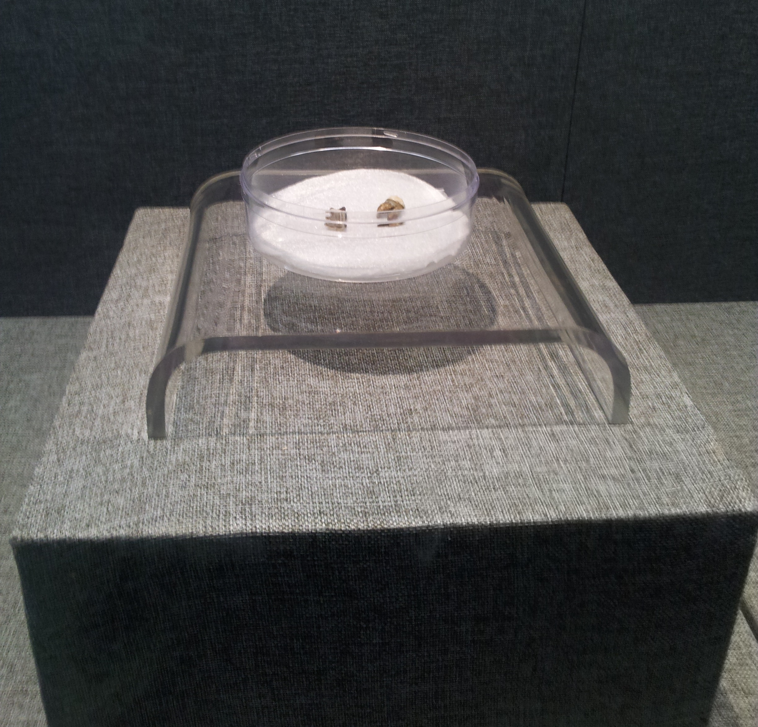 Teeth of Emperor Yang of Sui (569 – April 11, 618), Taken in Yangzhou Museum. Teeth excavations at April 2013 in Tomb of Emperor Yang of Sui and Empress Xiao.